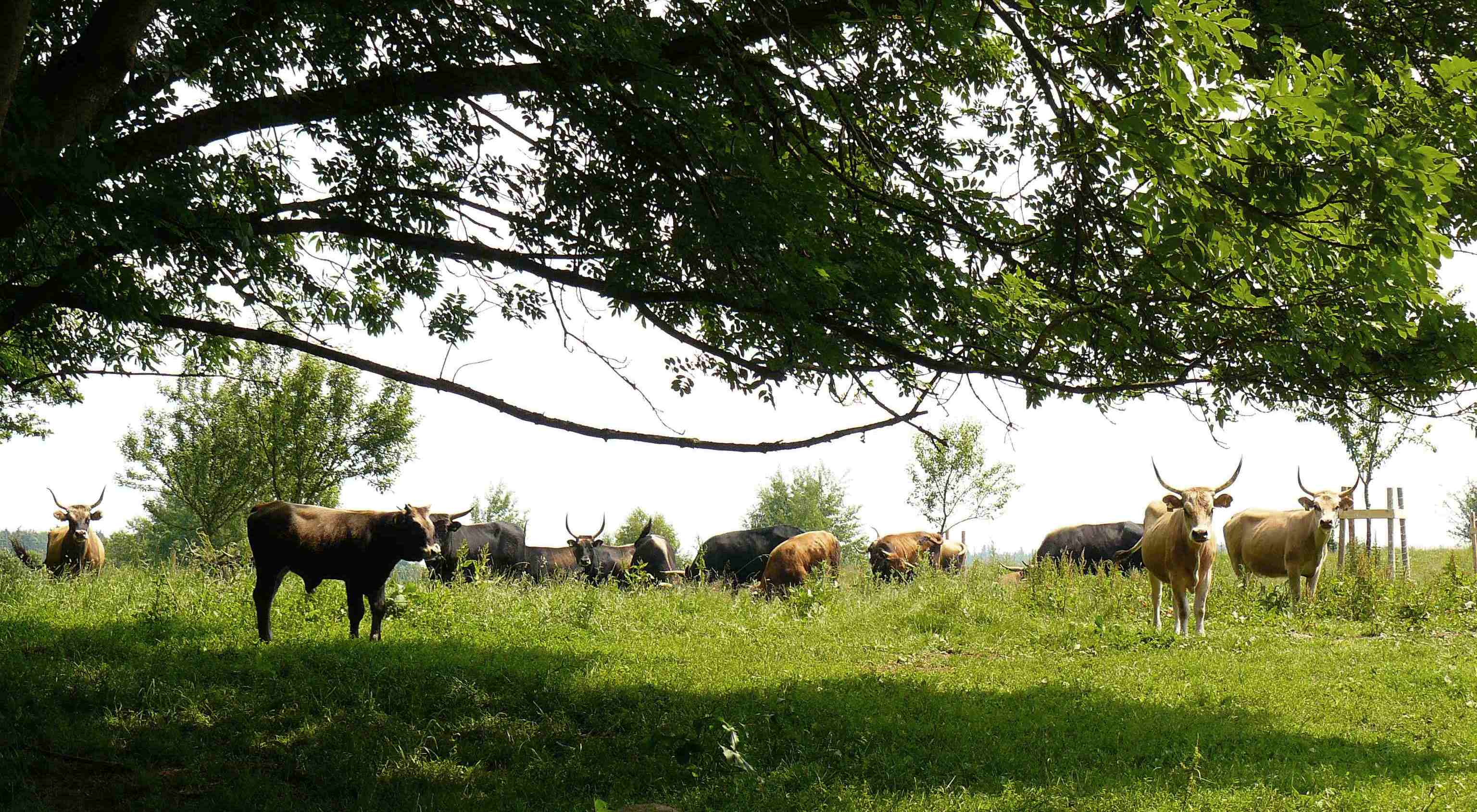 Heck cattle in the Nature Reserve "Grubenfelder Leonie" near Auerbach in der Oberpfalz